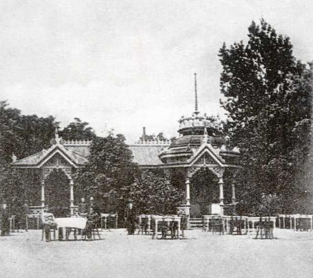 Stamboli Summer Garden in Melitopol, Ukraine